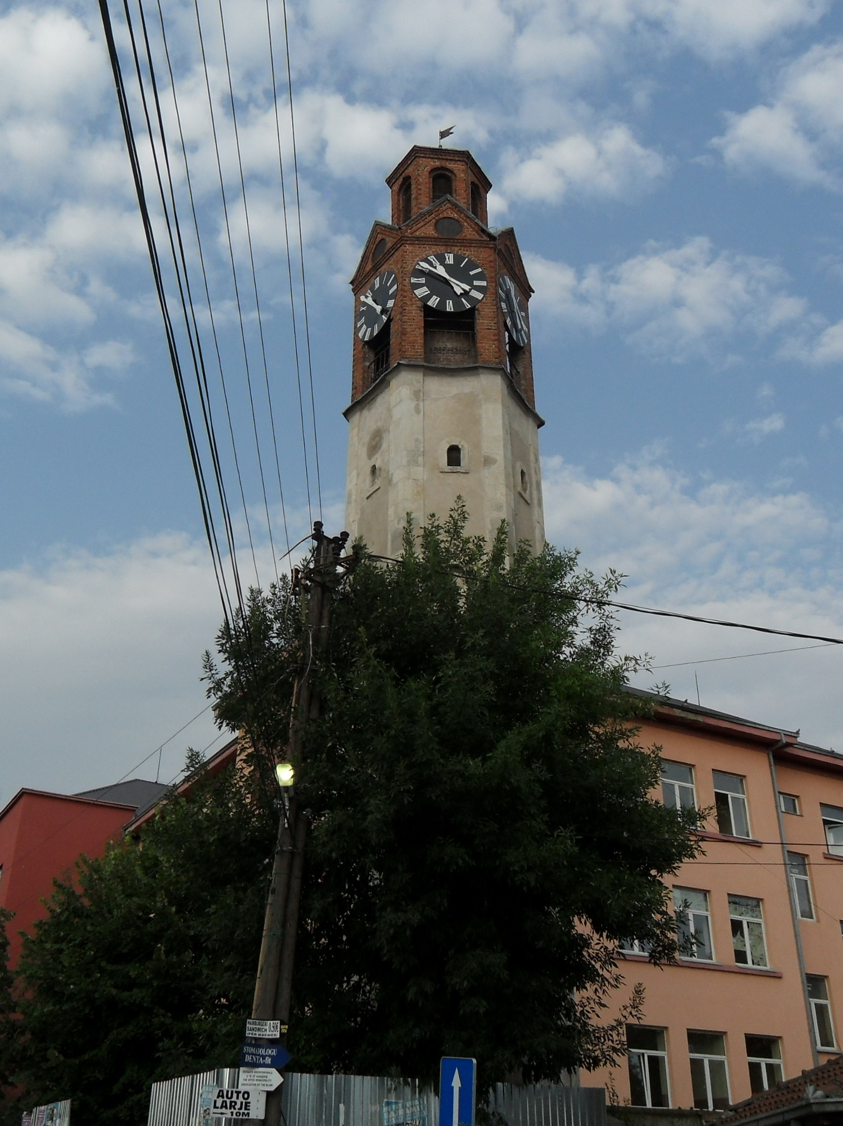 Clock tower in Pristina.